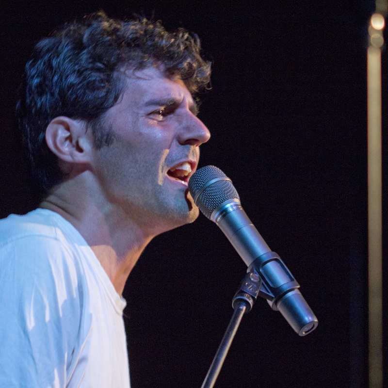 Roger Stein 2010